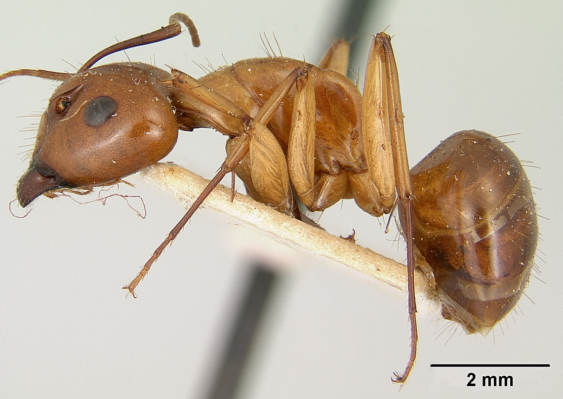 Profile view of ant Camponotus concolor specimen casent0101358.